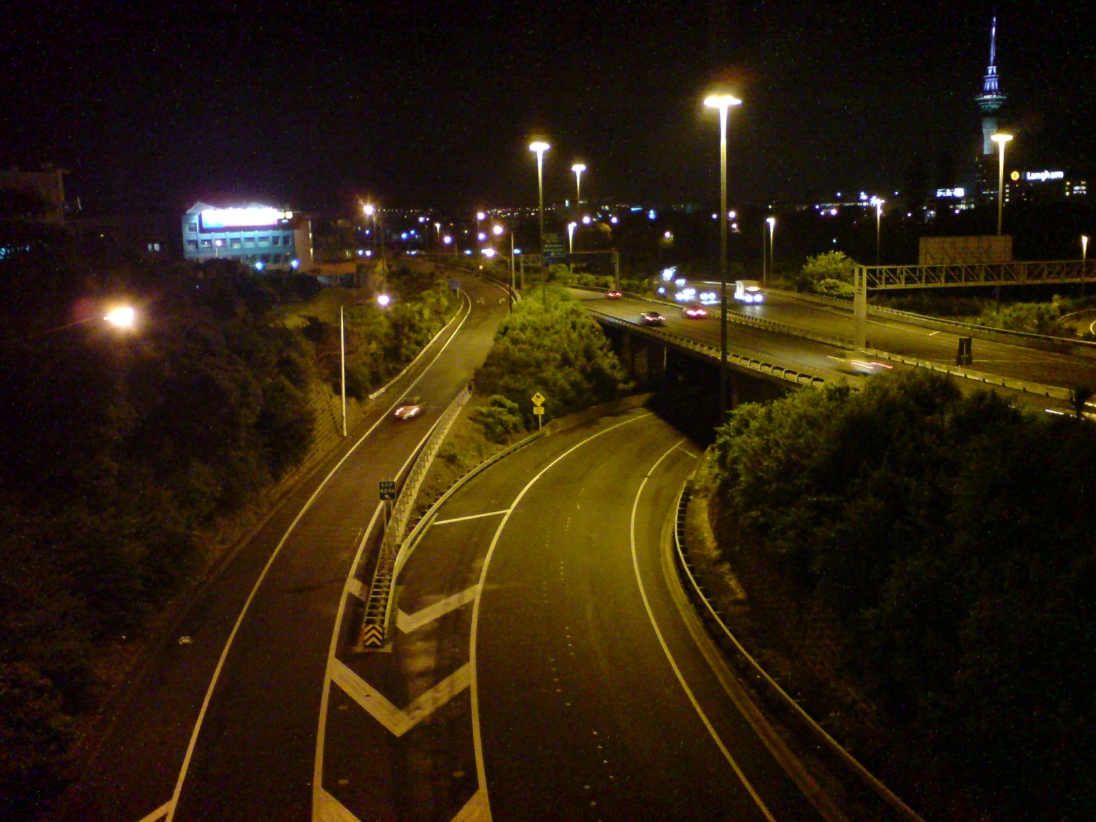 The northbound Grafon Gully turnoff from State Highway 1 down towards the Port of Auckland in Auckland City, New Zealand.